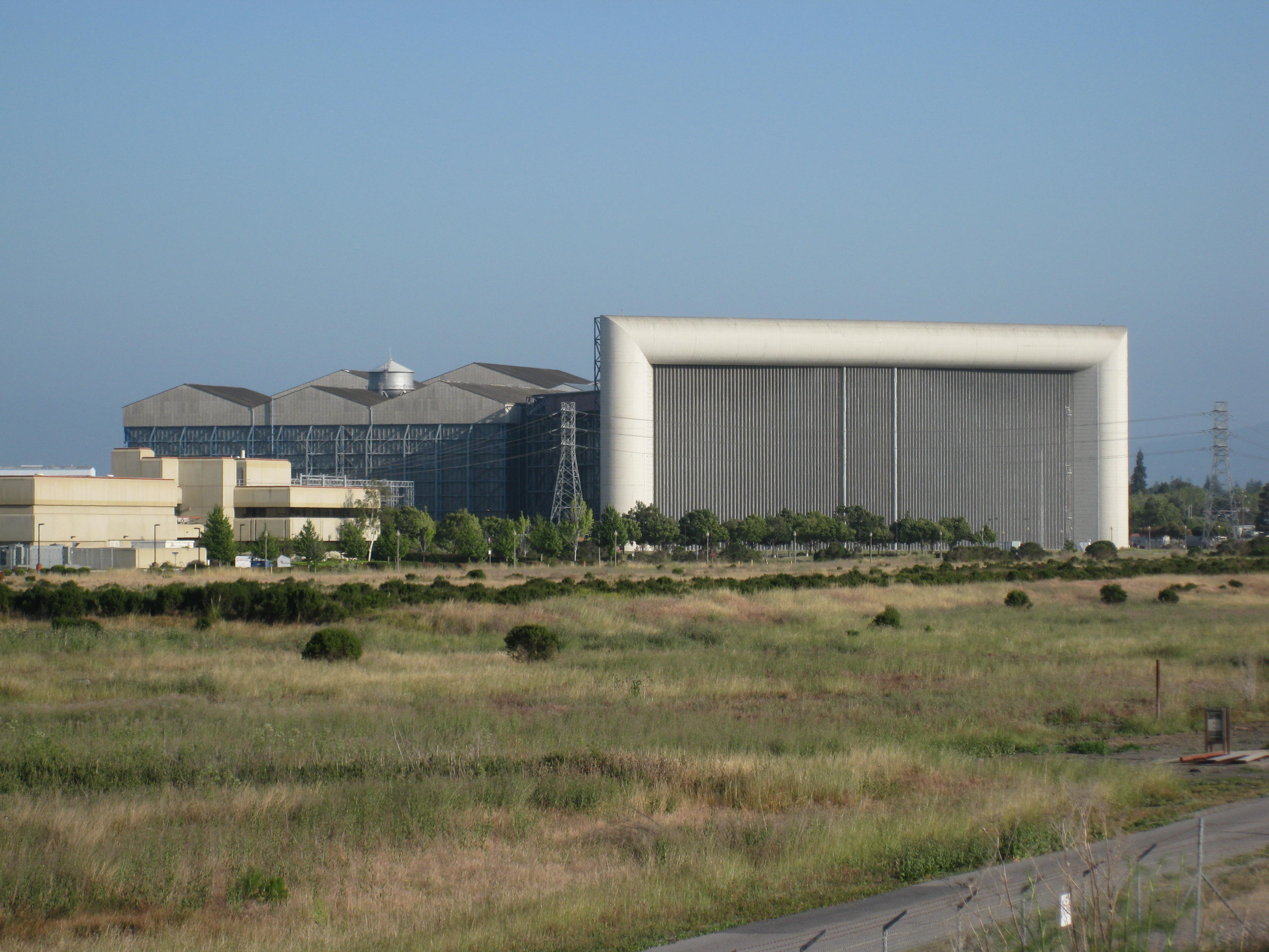 The wind tunnel at NASA Ames Research Center.